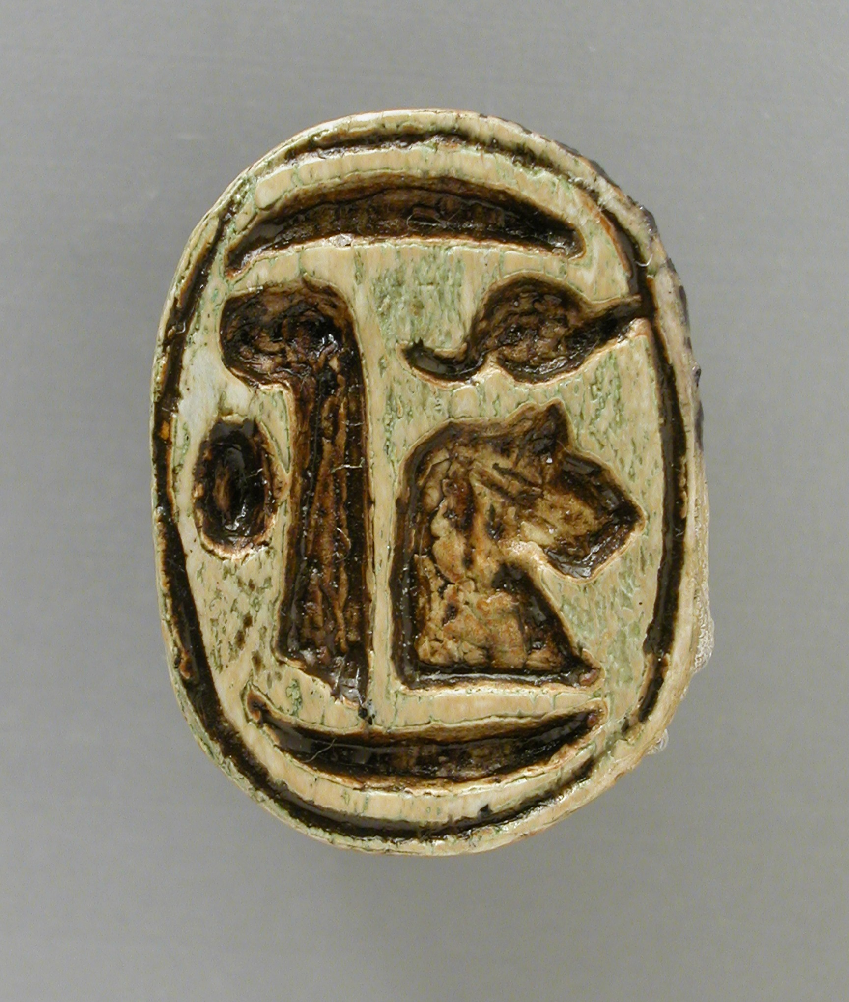 Egypt, New Kingdom, 18th dynasty, reign of Ahmose I (1569–1400 BCE) or later Sculpture Steatite with modern green and brown color Gift of Ruth Greenberg (M.86.313.16) Egyptian Art